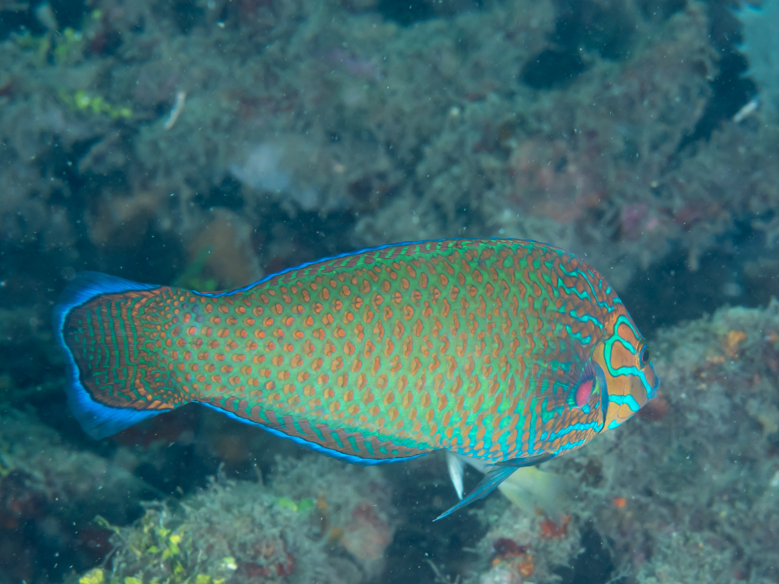 Lembeh, Indonesia - Greyhead wrasse (Halichoeres leucurus)